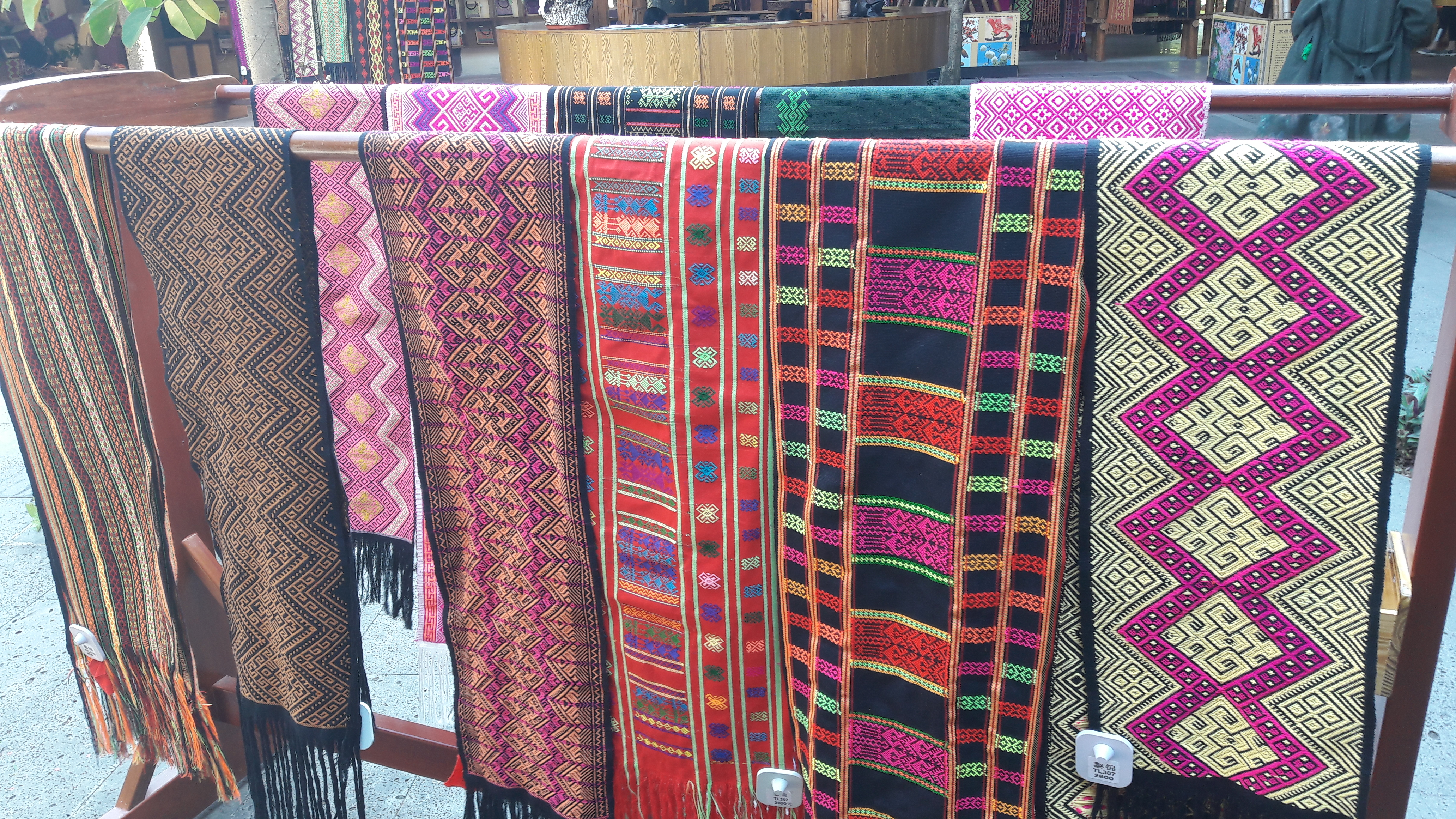 Li people textiles, as sold by them on Hainan island, South of China.